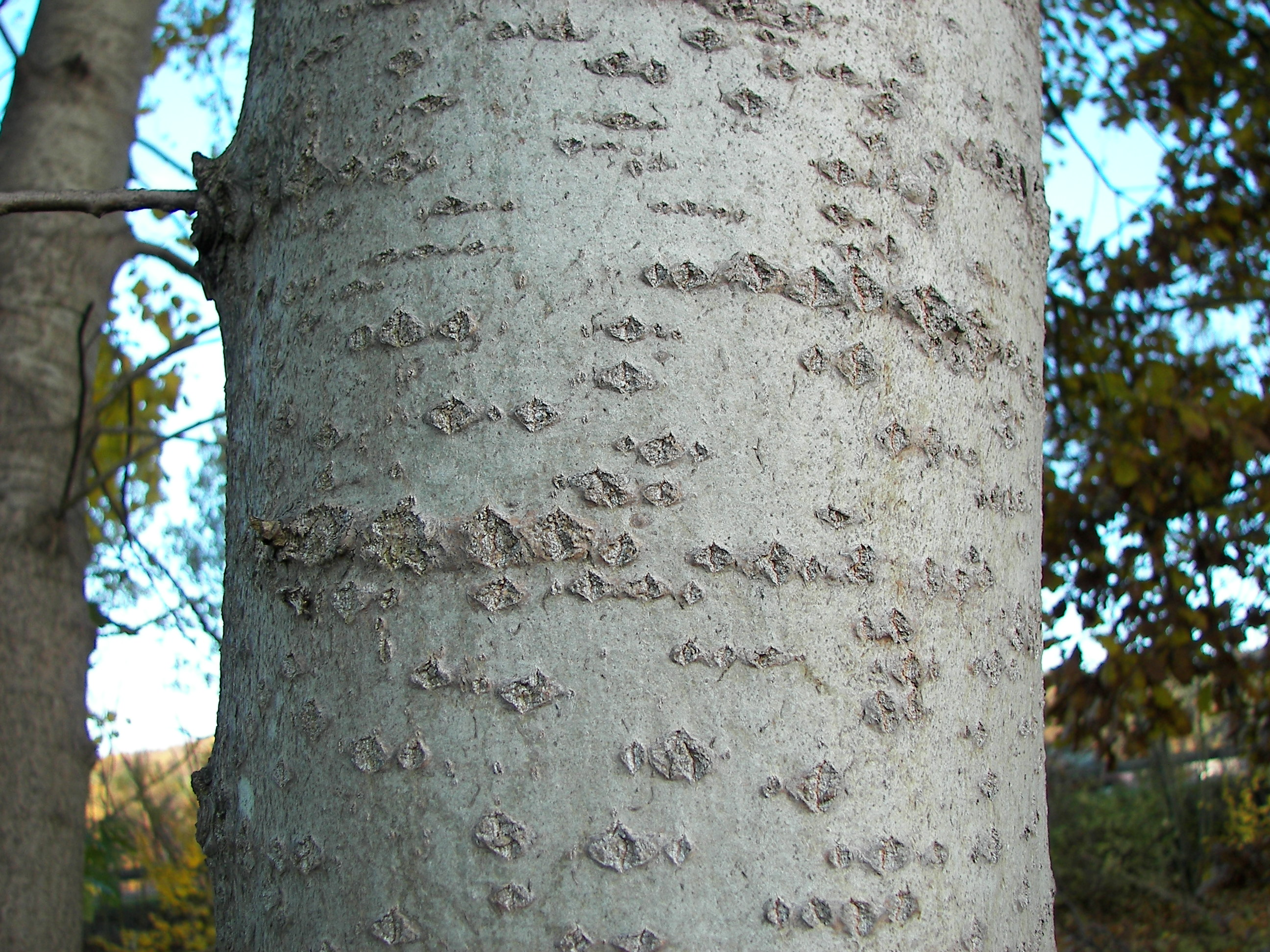 Aspen-Bark (Populus tremula) near Marburg, Hesse, Germany